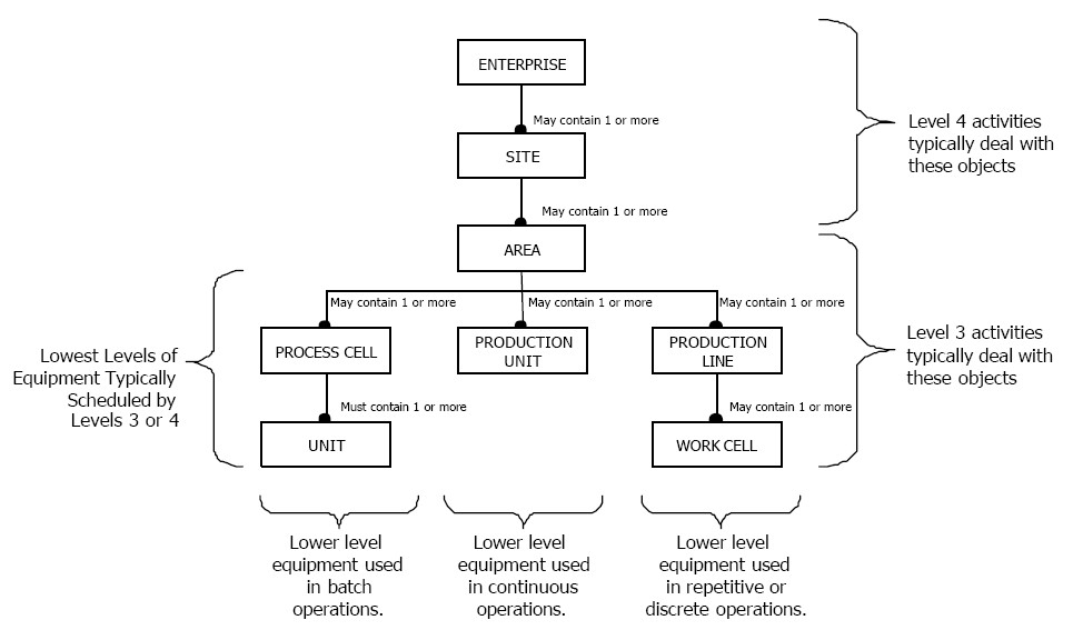 Typical equipment organization : Physical assets of a manufacturing enterprise are usually organized in a tree structure such as the one described in the figure. Lower level groupings are combined to form higher level entities. In some cases, a grouping within one level may be incorporated into another grouping at that same level. In the following section, we define the areas of responsibility for the different levels defined in the hierarchical model and some of the objects used in the information exchanged within and across those levels.